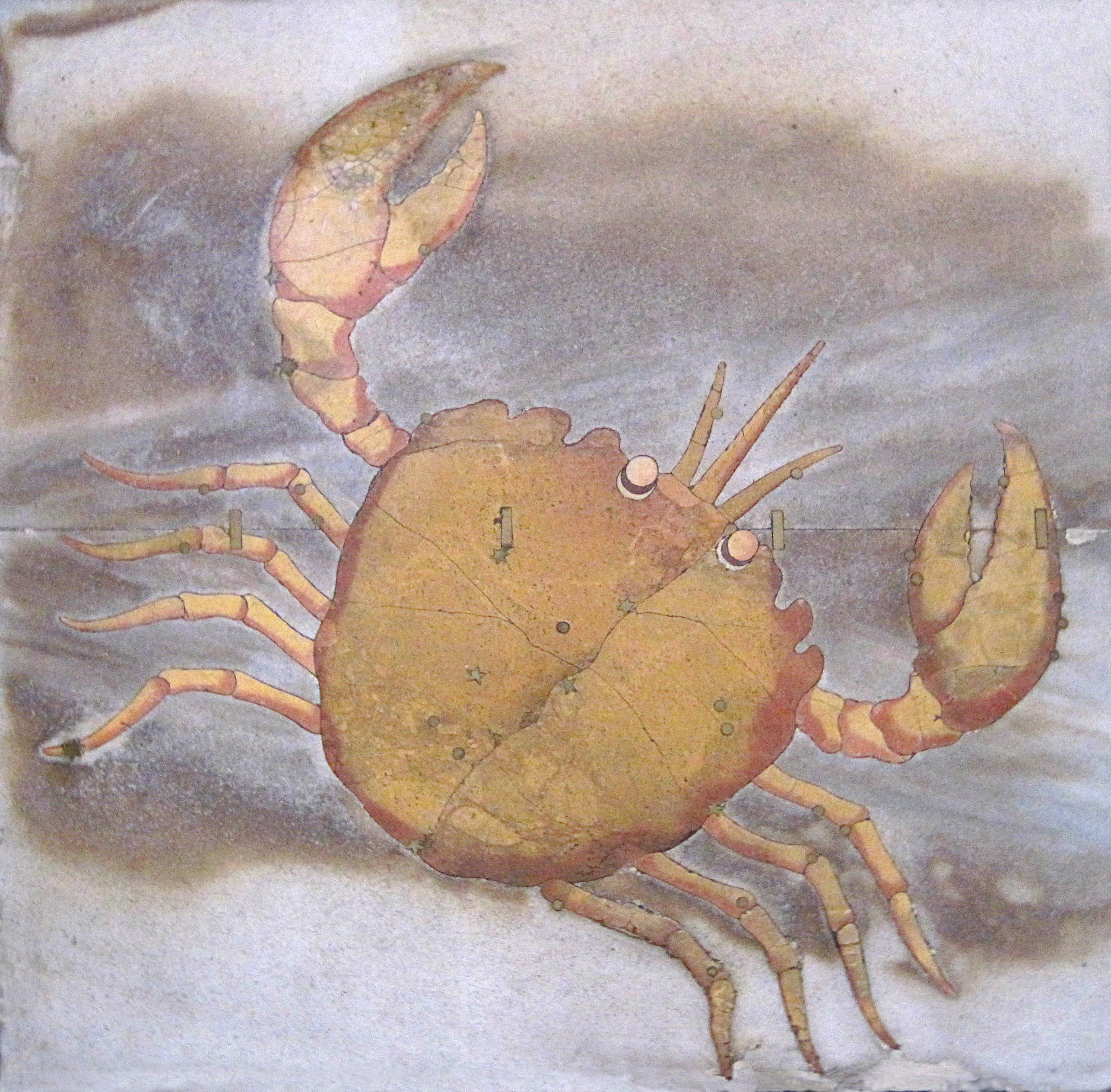 Zodiacal sign of the Cancer on panel of white marble inlaid with colored marble (opus sectile) adorning one side of the Meridian solar line of Basilica Santa Maria degli Angeli e dei Martiri in Rome built by Francesco Bianchini (1702).